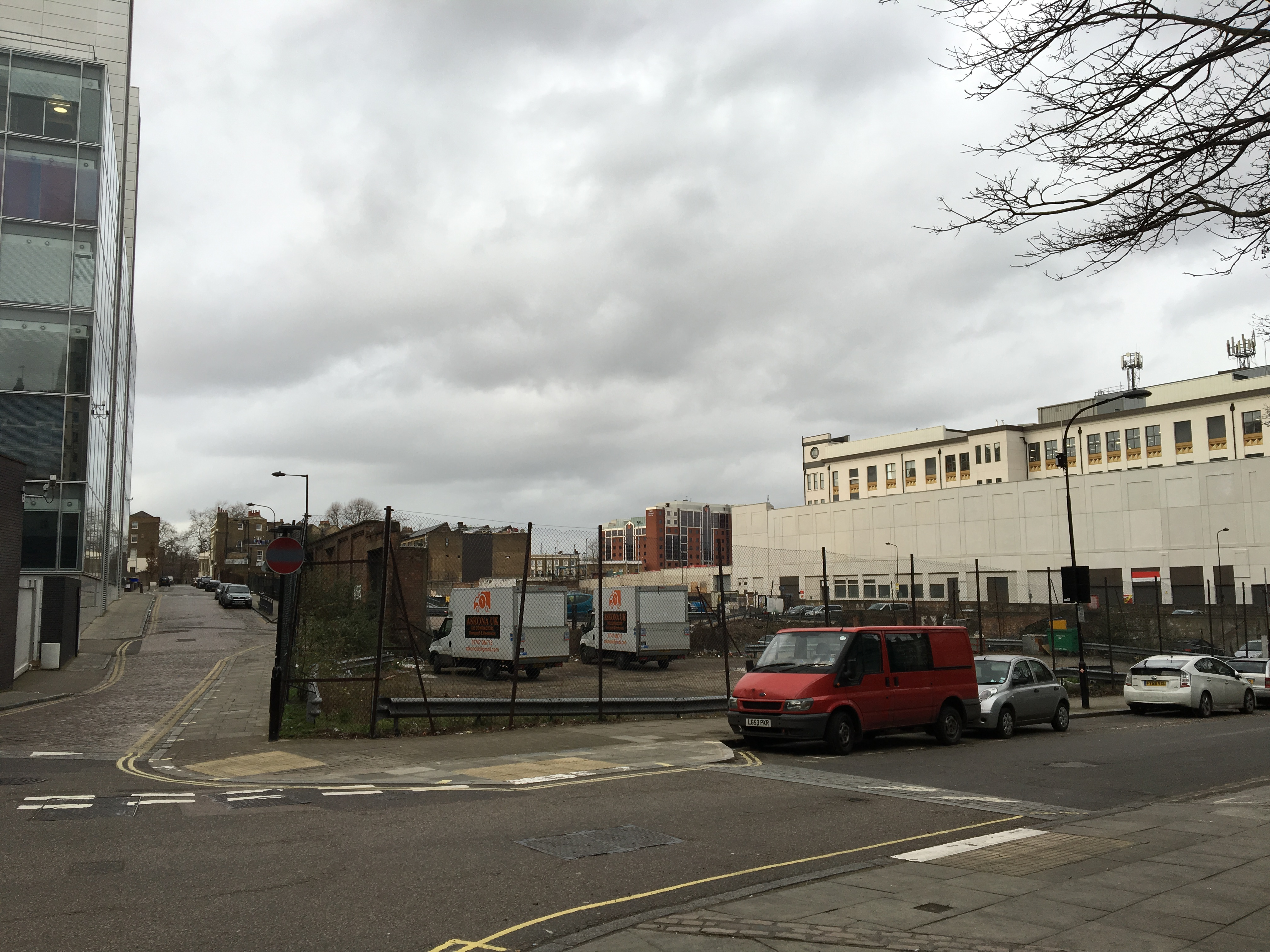 Mount Pleasant car park